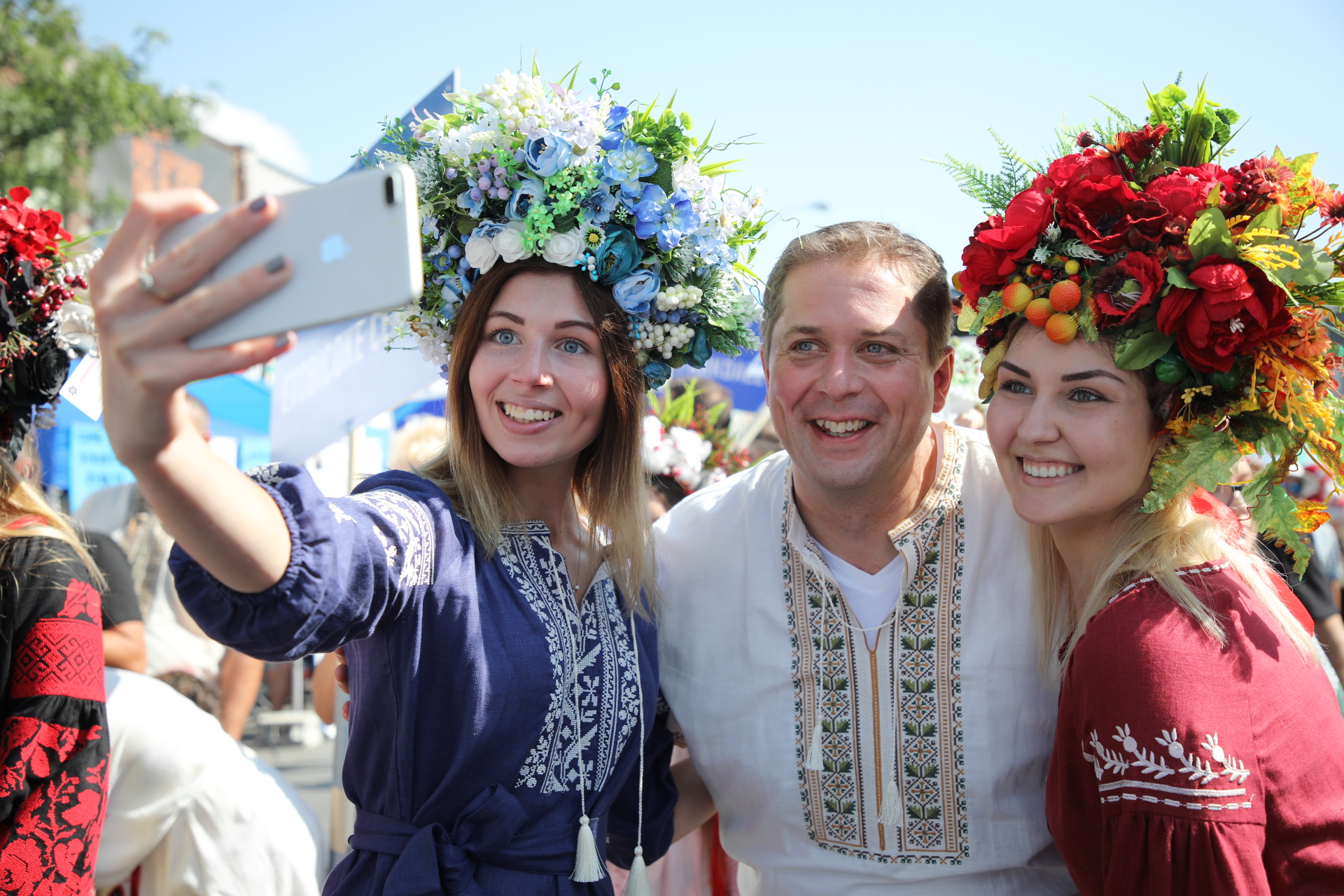 North America's largest Ukrainian Street Festival #TorUkrFestival never disappoints! My friends James Bezan, Stella Ambler and Ted Opitz and I are proud to celebrate with the thousands of Ukrainian-Canadians here today.